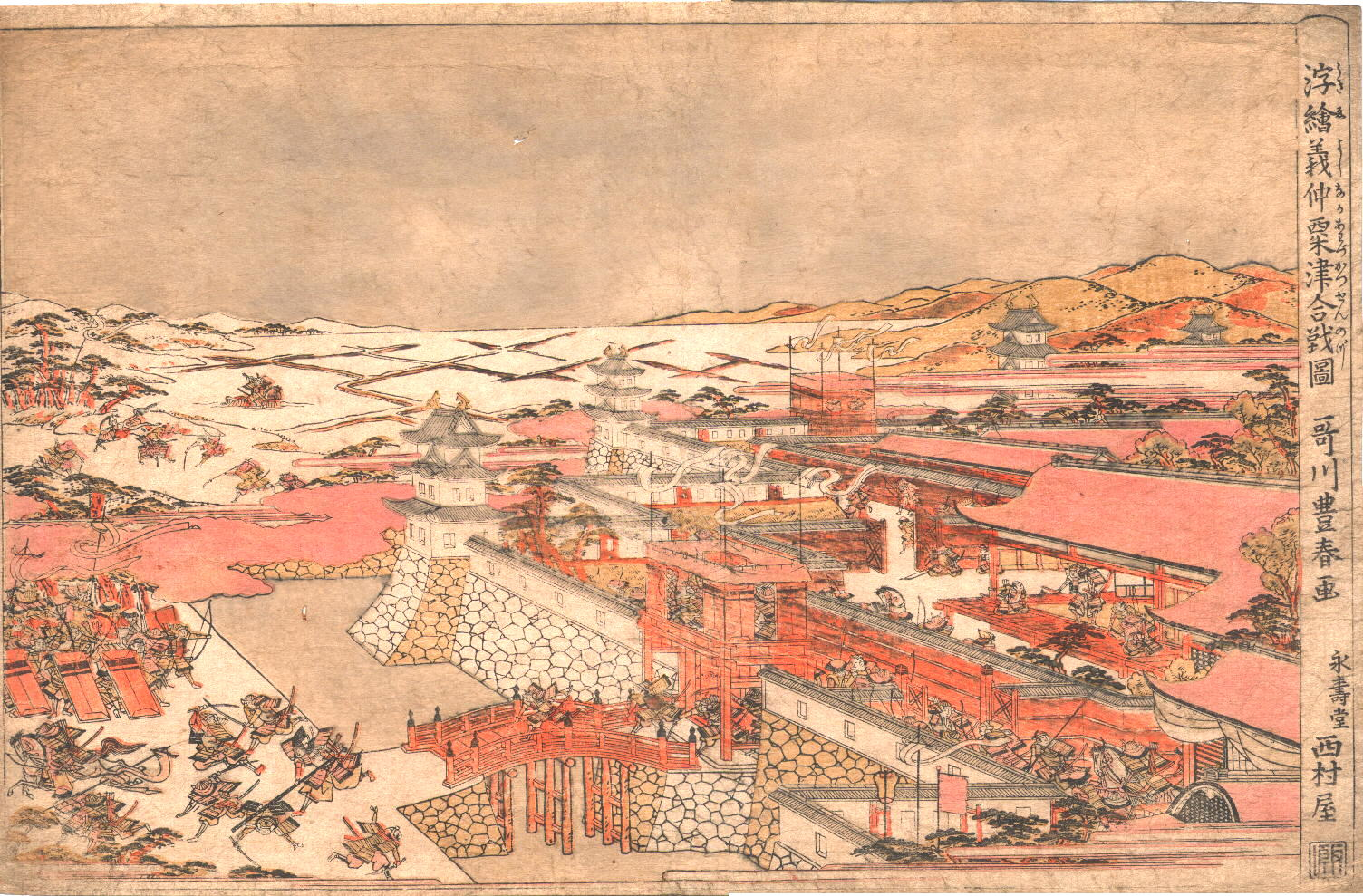 "Yoshinaka Awazu Kassen (no) zu (View of Minamoto no Yoshinaka and the Battle of Awazu)", from the series 'Uki-e (Perspective Pictures)'